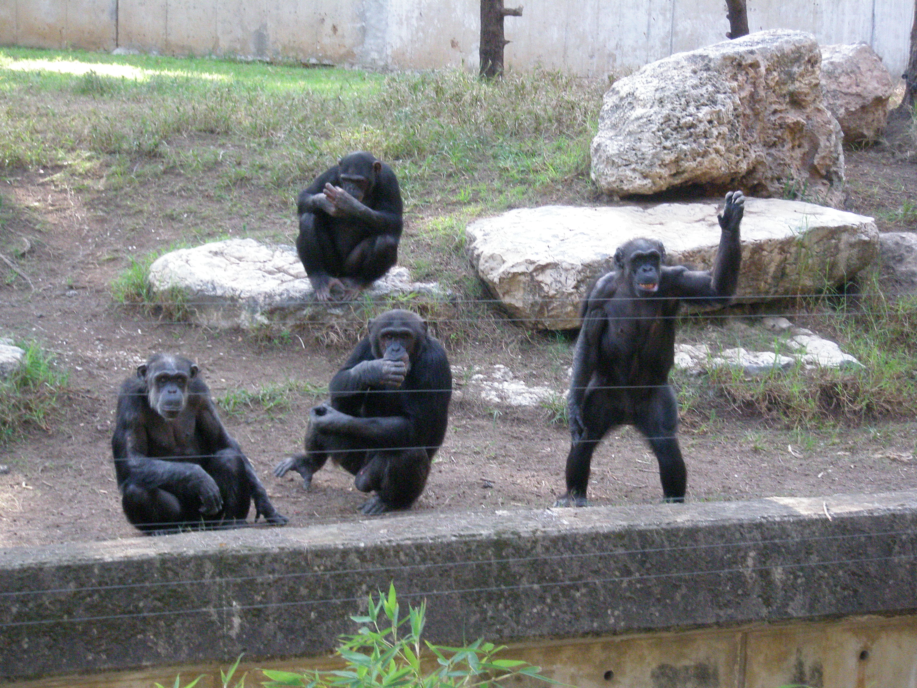 Chimpanzees at Zoological Center of Tel Aviv-Ramat Gan